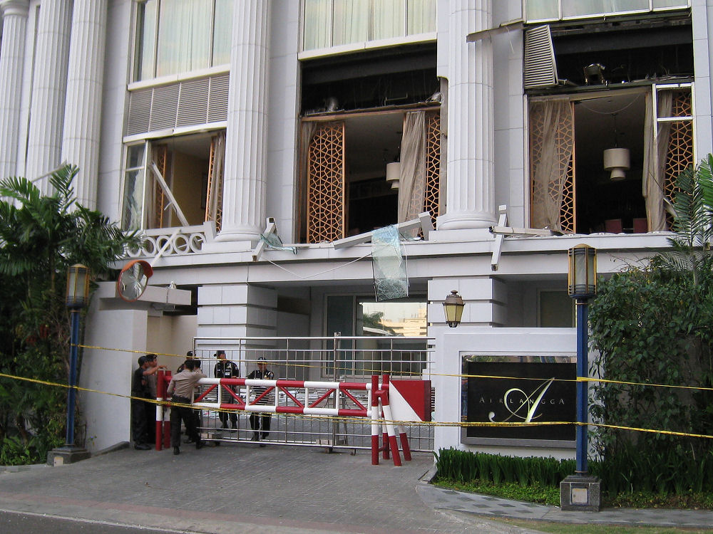 Bomb blast damage to Ritz-Carlton, Jakarta